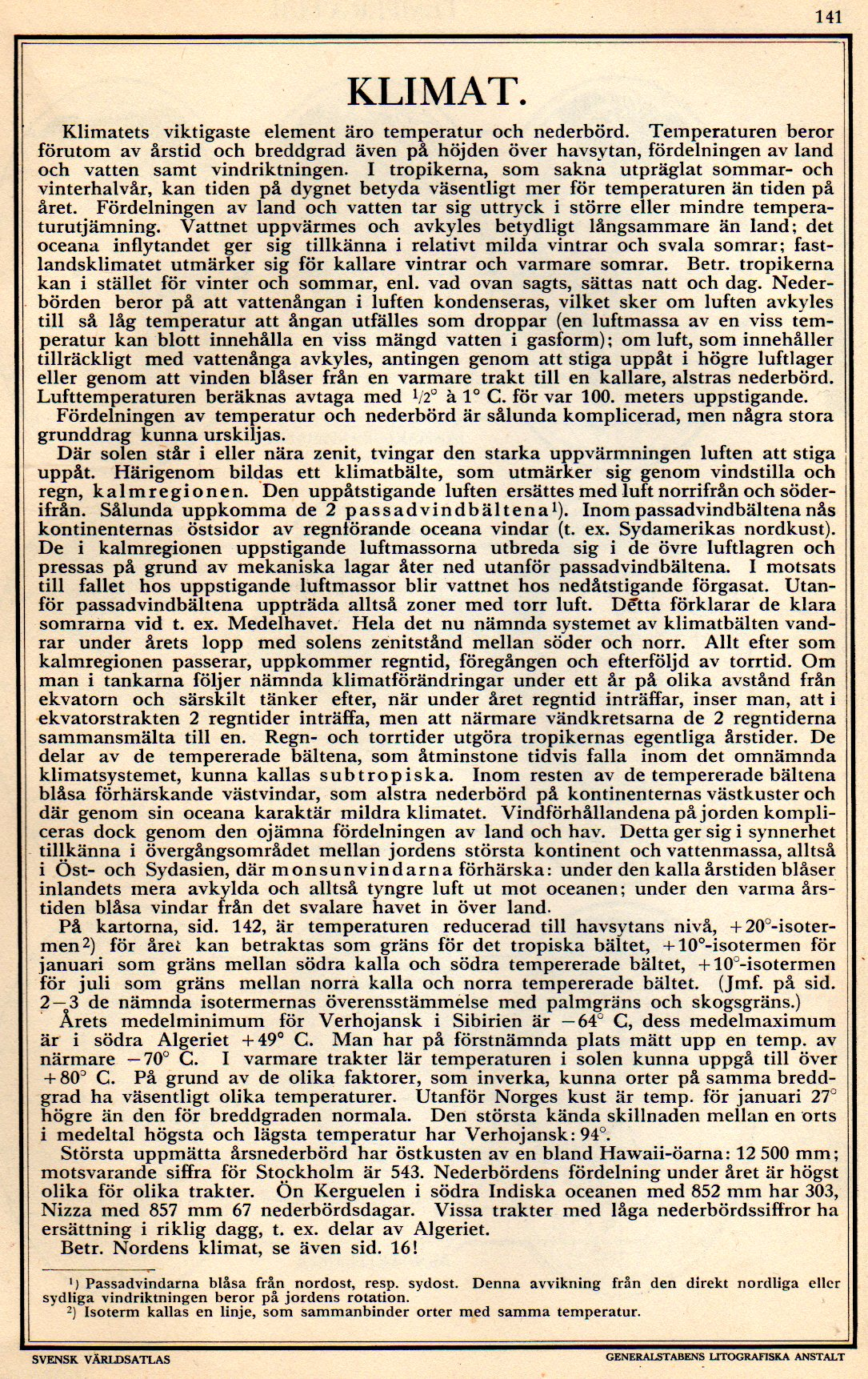 Swedish text about climate in the Swedish Atlas "Svenska världsatlas", 1930.